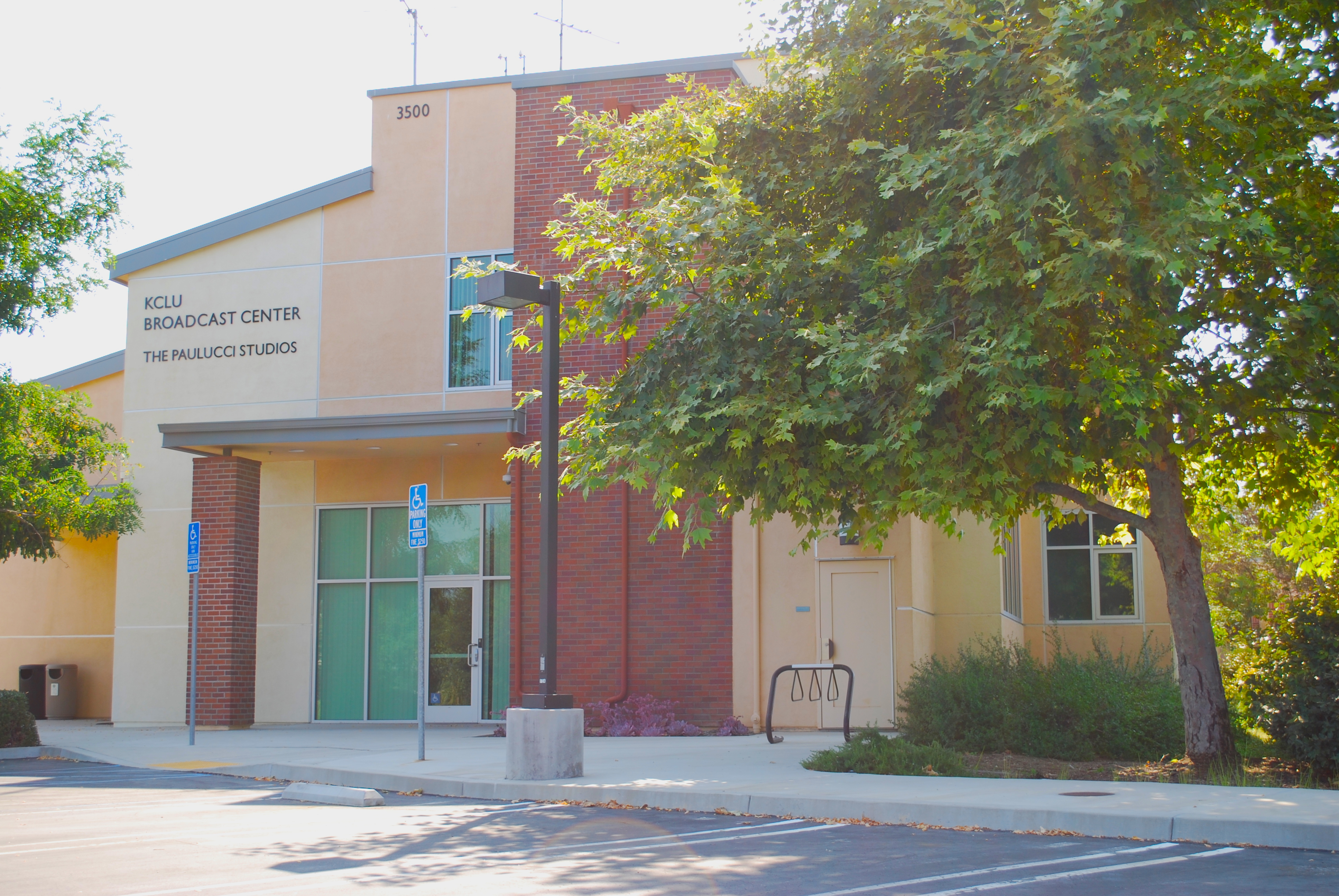 KCLU Broadcast Center at California Lutheran University (CLU) in Thousand Oaks, California.